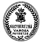 stamp Velikiy Berezniy